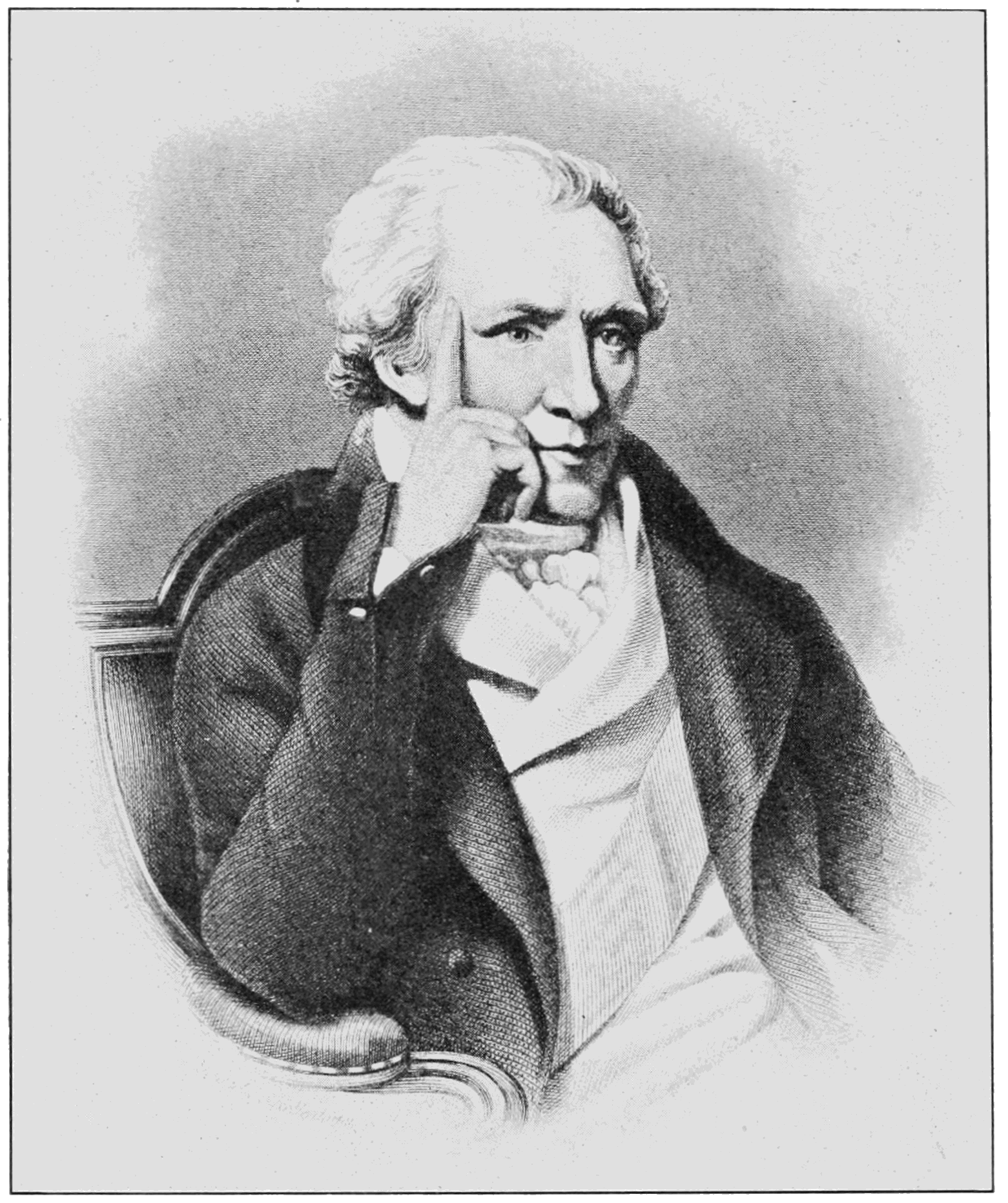 Count Rumford at forty five years of age